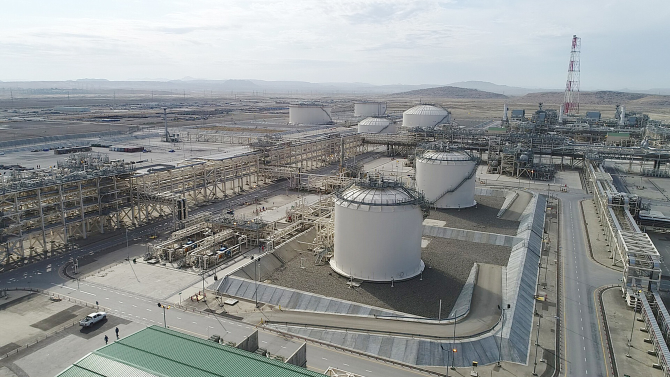 Sangachal Terminal, Azerbaijan